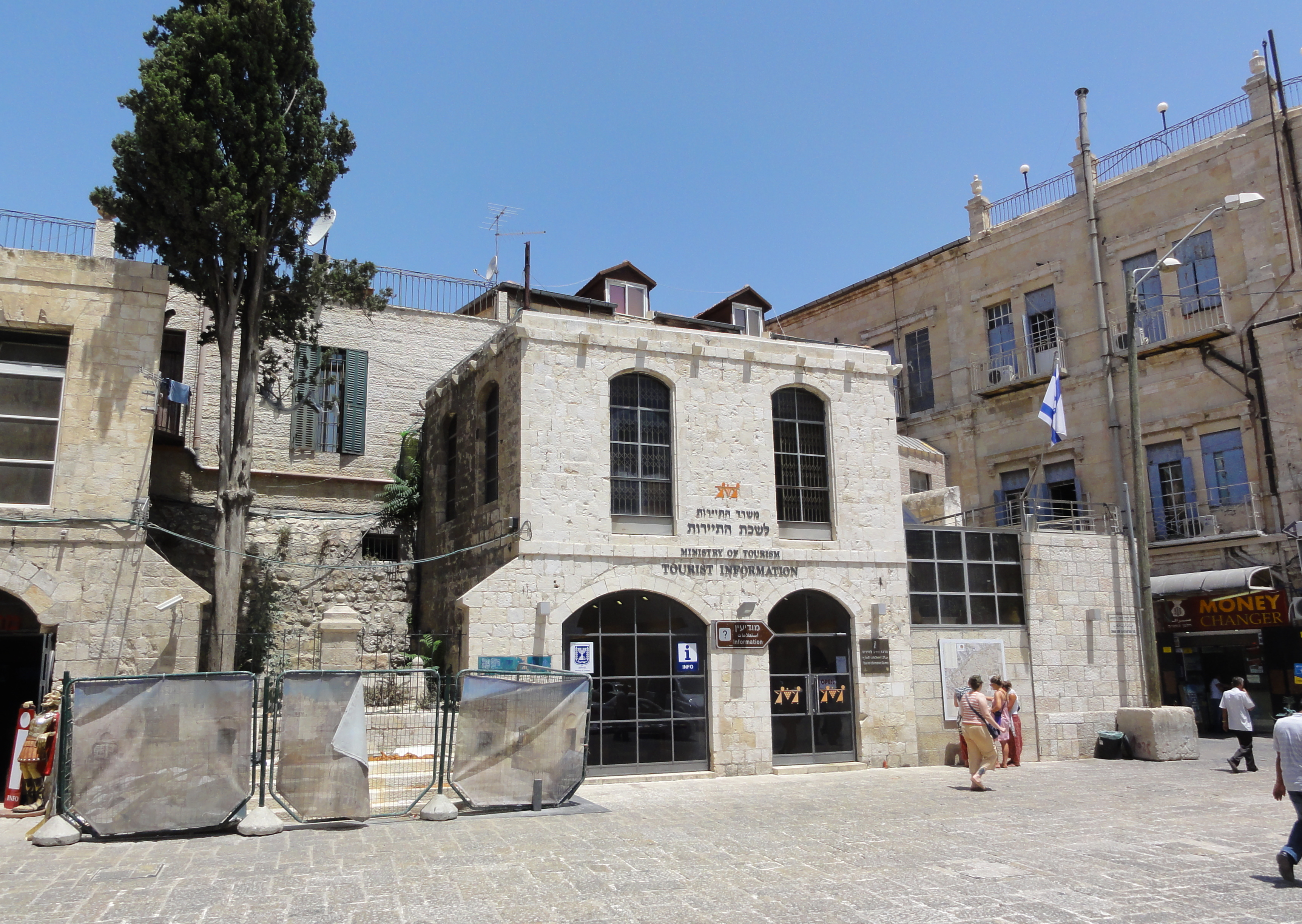 Omar Ibn El-Khattab Square, feat. Official visitor centre (old city).